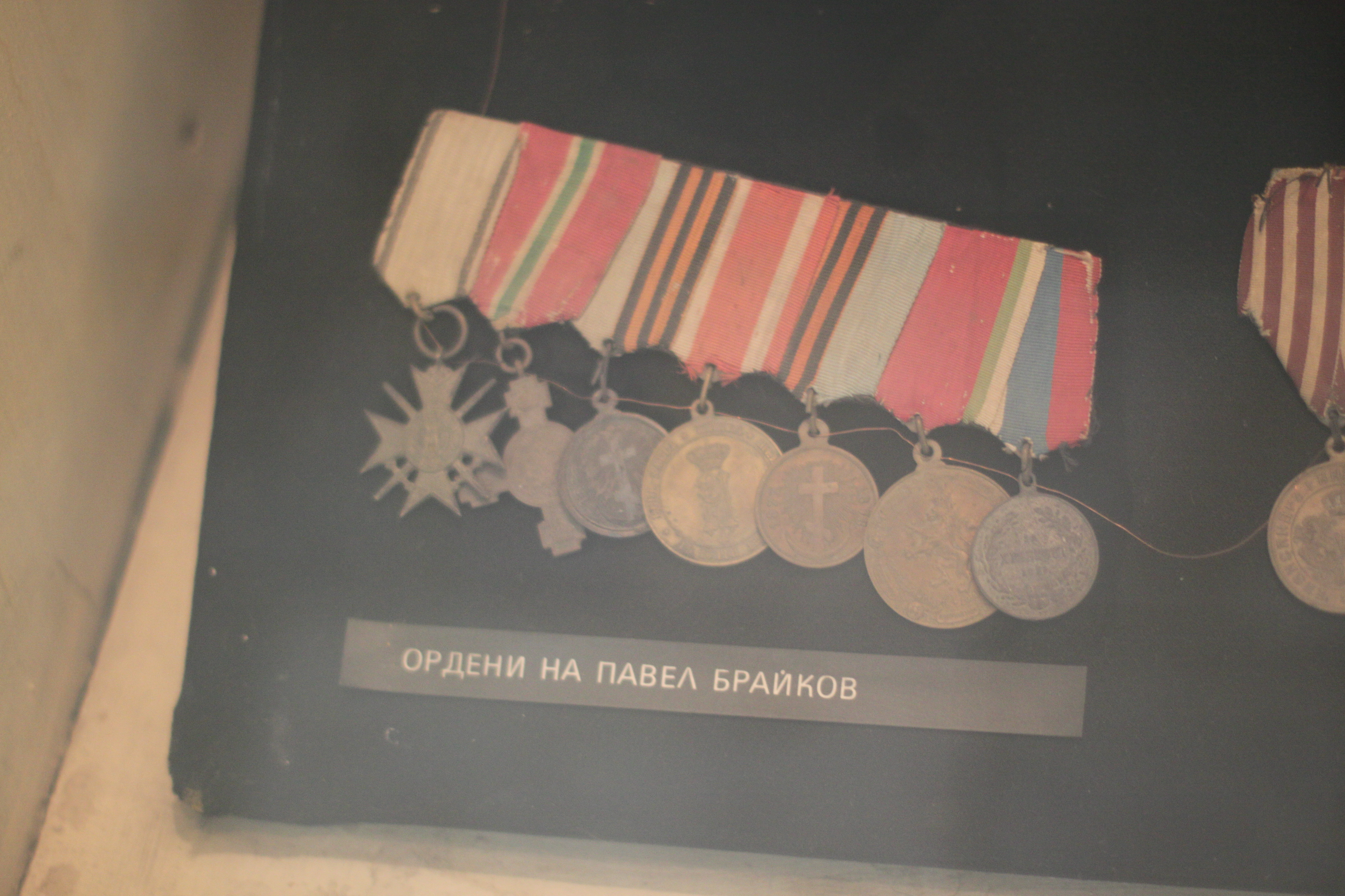 Haskovo Historic Museum, Haskovo, Bulgaria